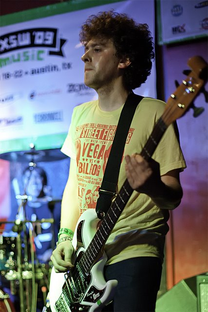 The rhythm section doing their thing at SXSW '09.